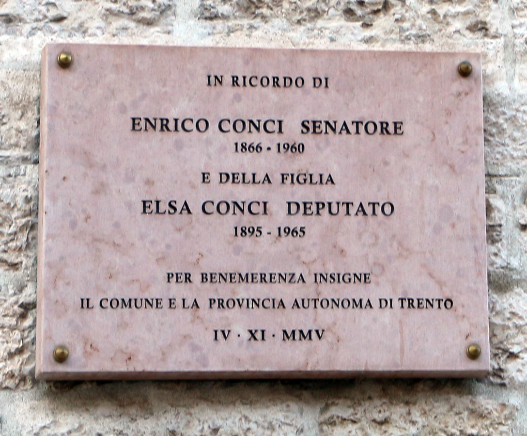 Palaces in Trento